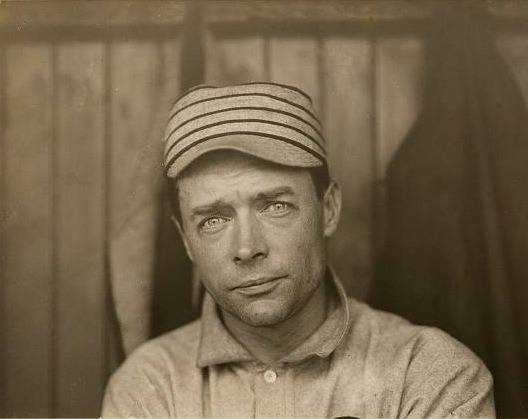 Photograph shows Harry H. Davis, first baseman for the Philadelphia Athletics, head-and-shoulders portrait, facing front. Photo courtesy of the Library of Congress.